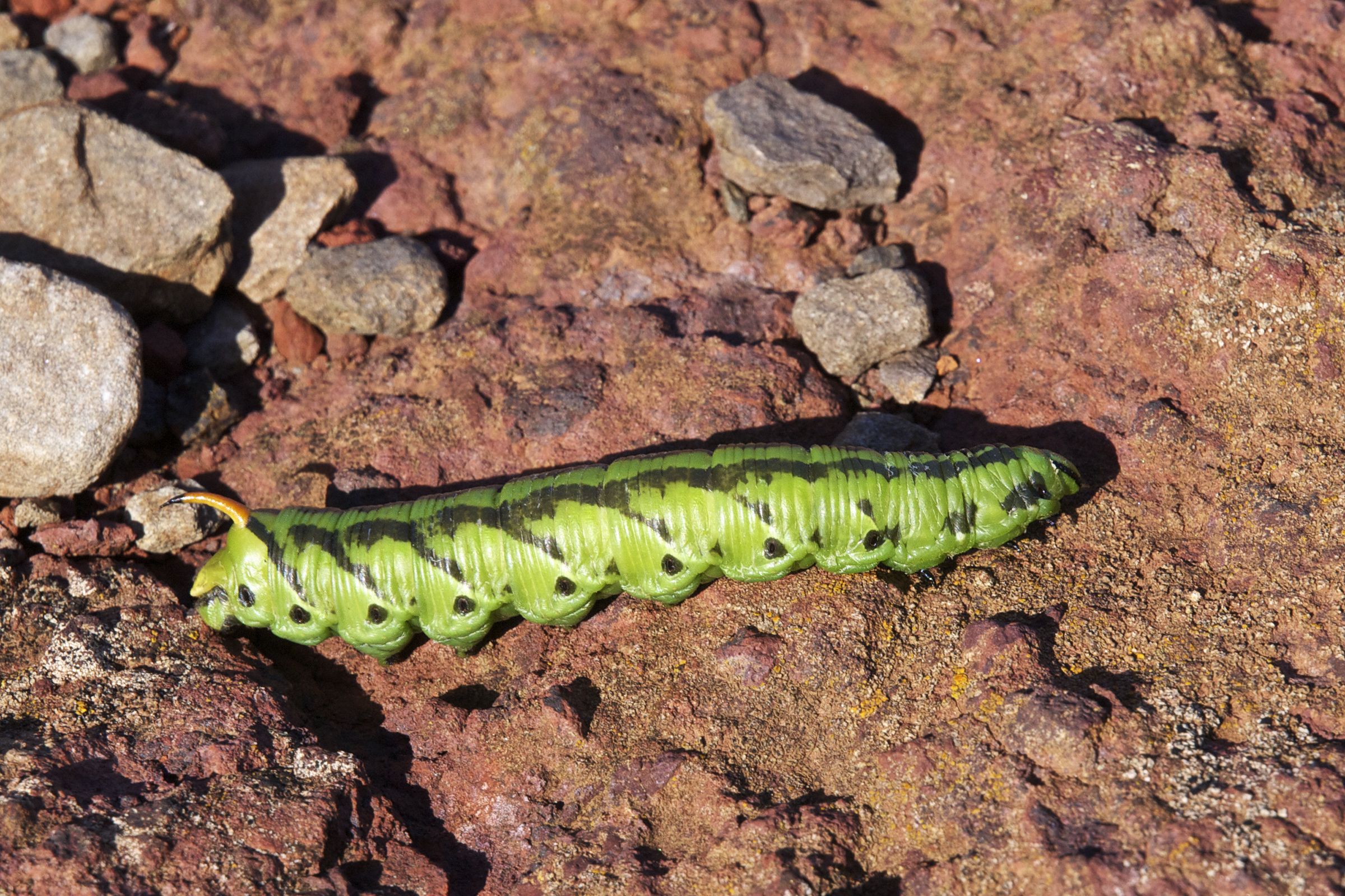 Convolvulus Hawk-moth (Agrius convolvuli) caterpillar, Madeira, Portugal